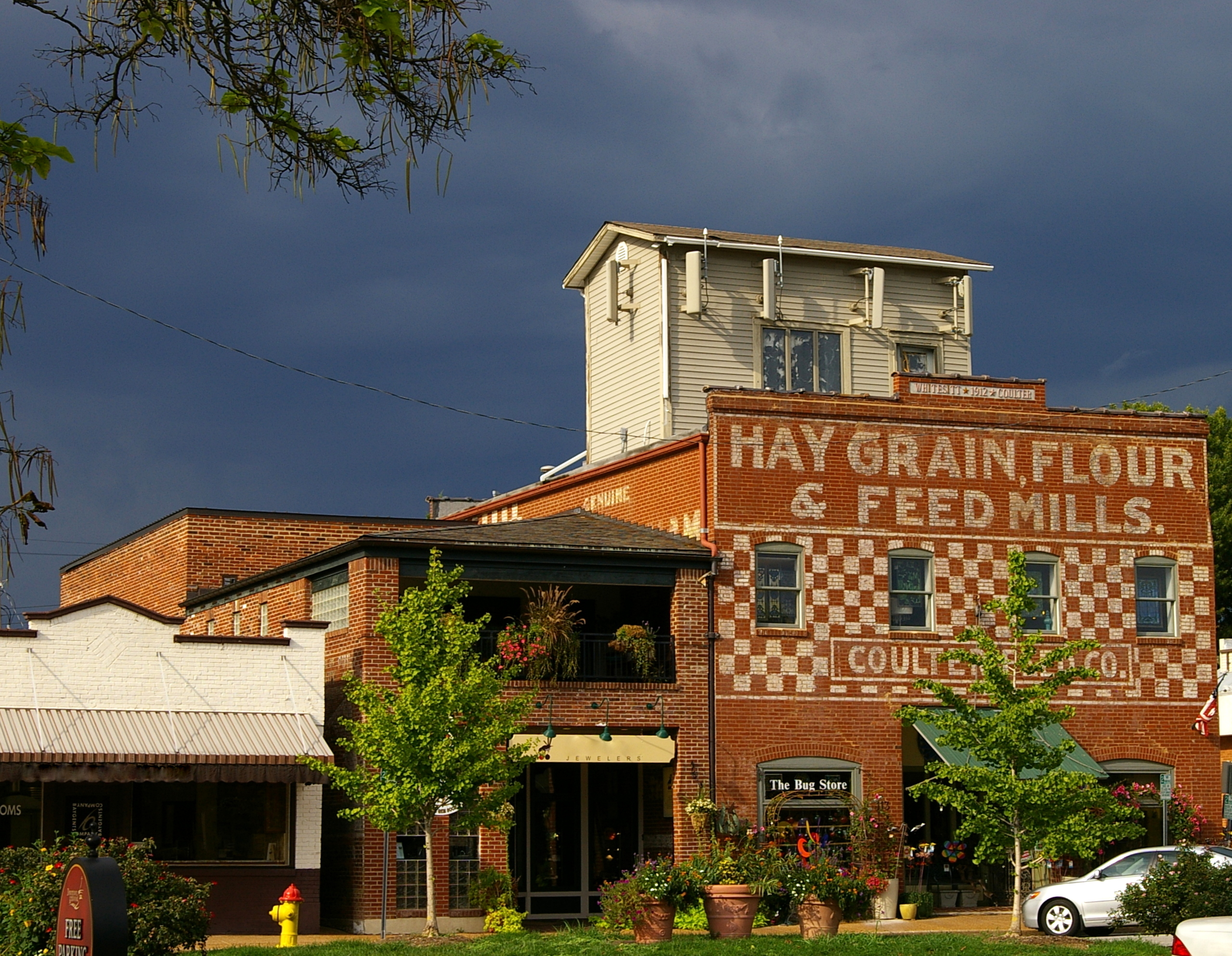 Downtown Kirkwood Historic District